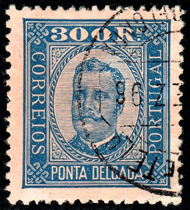 Ponta delgada 1892 300r dark blue on salmon, used. Catalogue: Sc. 12